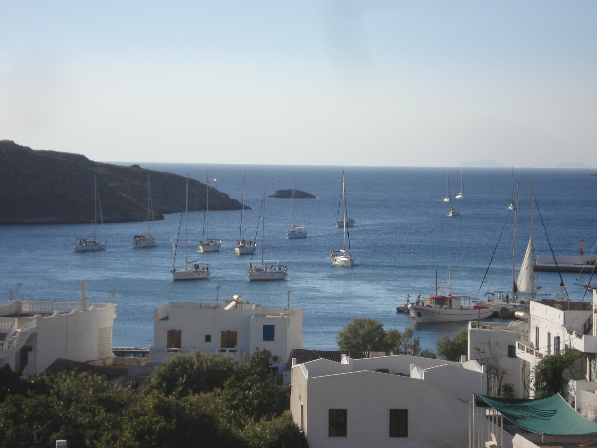 Merichas port